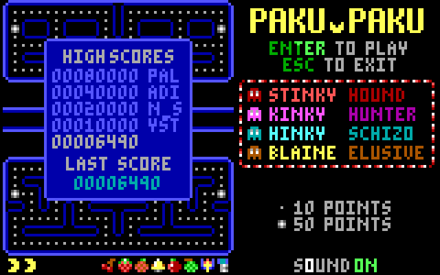 Title screen of Paku.Paku, a CGA game